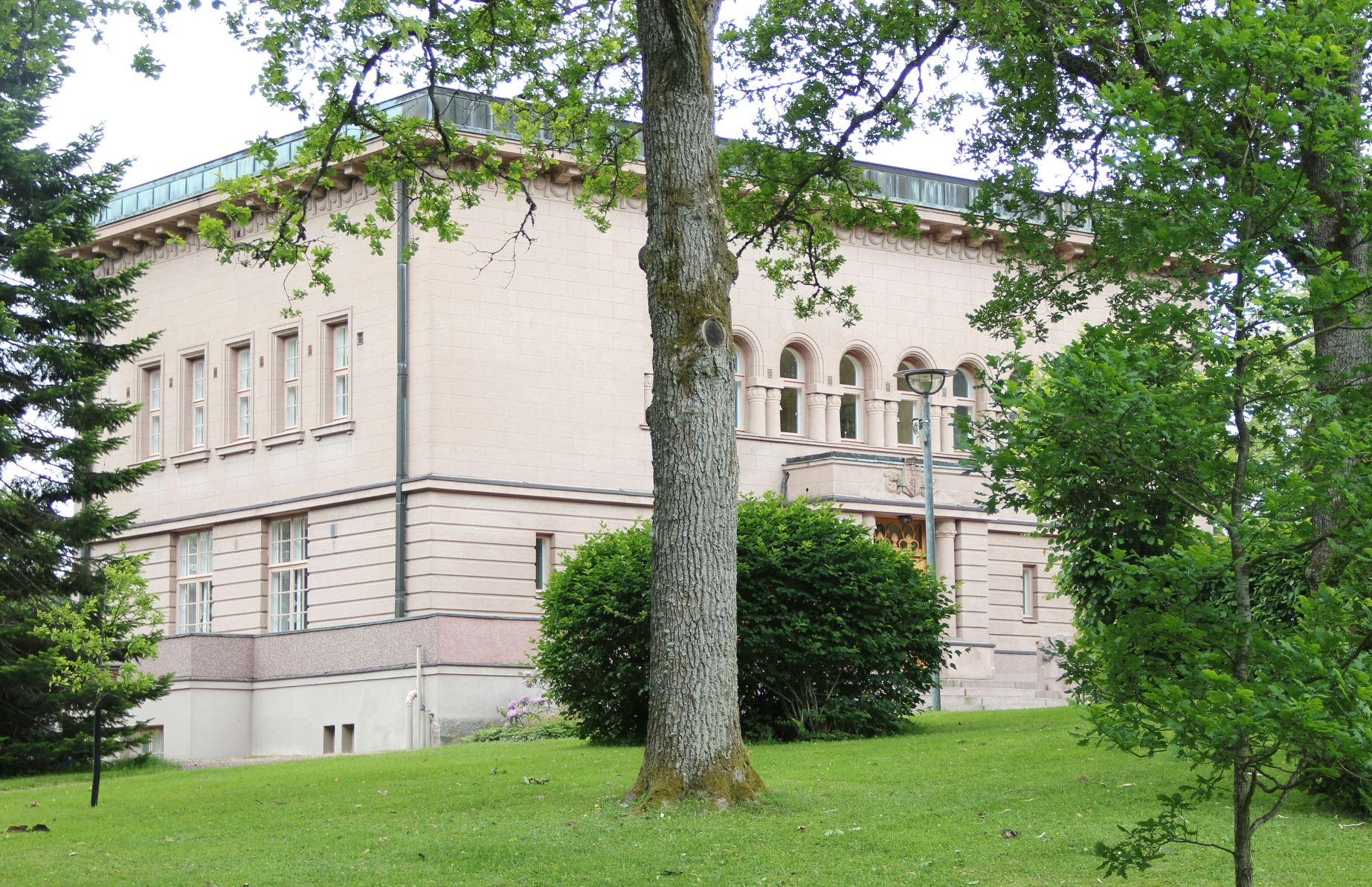 Villa Billnäs, manor, architect Lars Sonck, built 1917 in Pojo, Raseborg, Finland